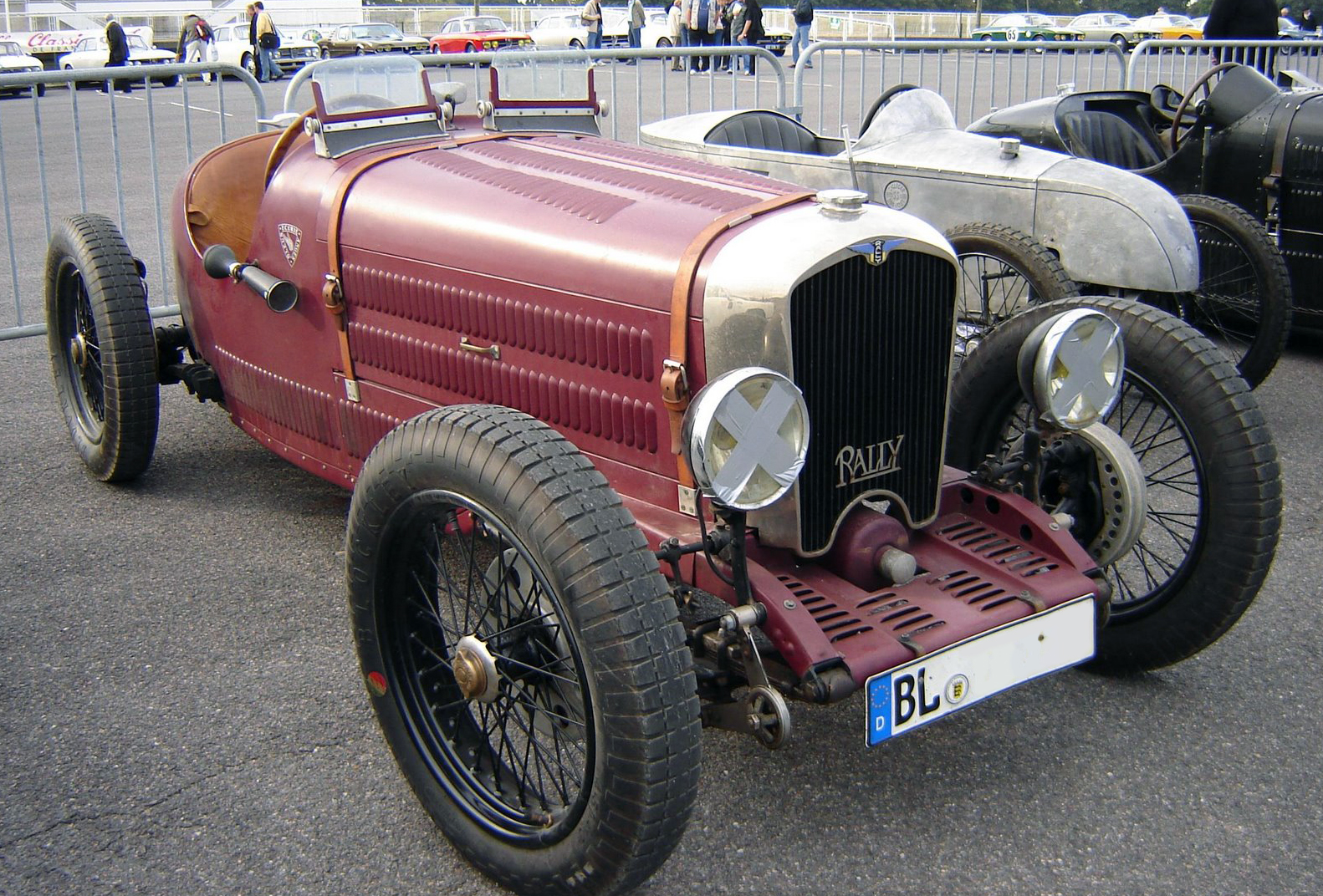 1933 Rally NCP at the Autodrome de Linas-Montlhéry, 2009